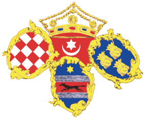 Standard of the Croatian Ban (Vice-Roy)